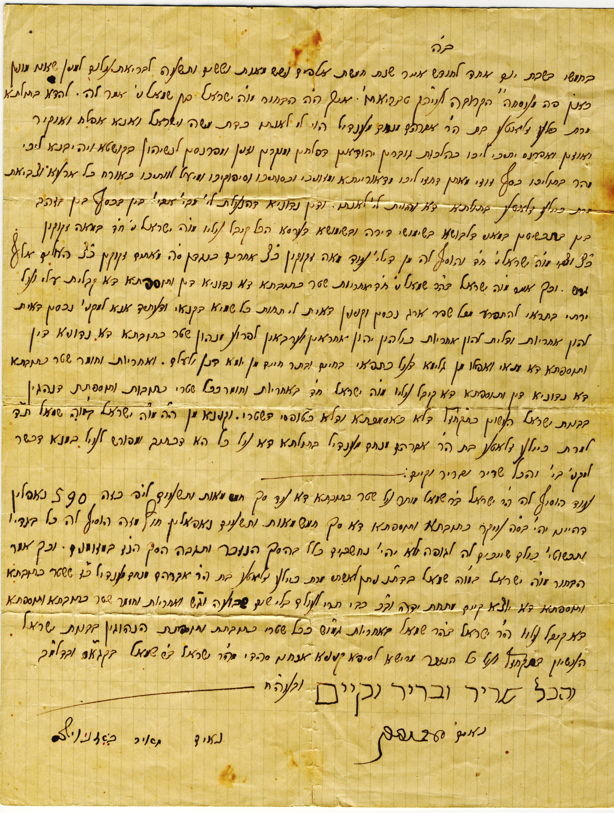 The ketubah of Kayla and Israel Giladi